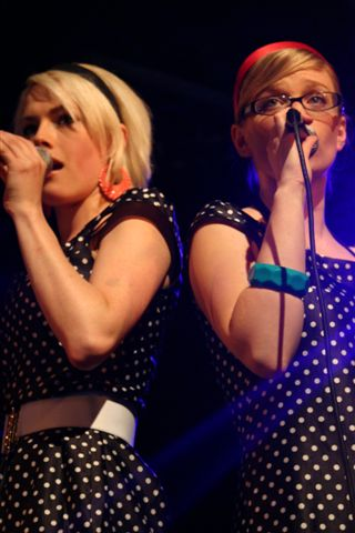 The Pipettes